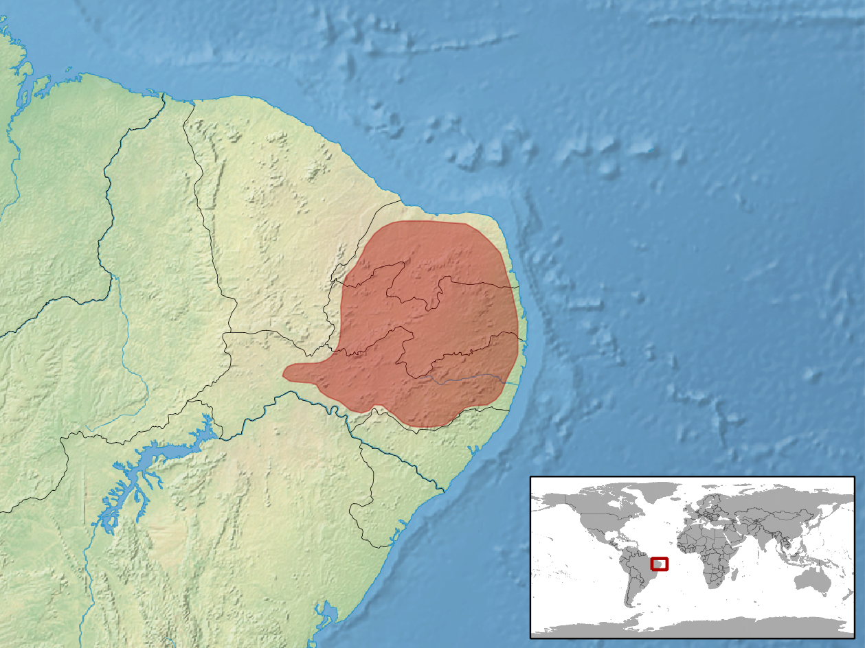 geographic distribution of Diploglossus lessonae (Native: Brazil (Paraíba, Pernambuco, Rio Grande do Norte))